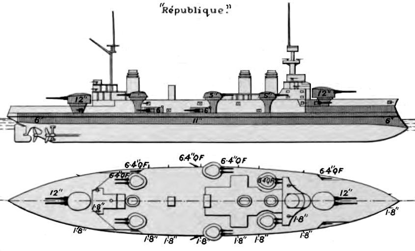 Right elevation and deck plan depicting French République class battleship. Top diagram (right elevation) shows armour thickness in inches. Bottom diagram (deck plan) shows gun sizes in inches.